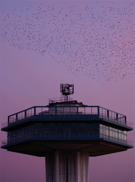 A flock of European Starlings gathers at sunset to roost , Fortron Services, M6 Motorway near Lancaster.